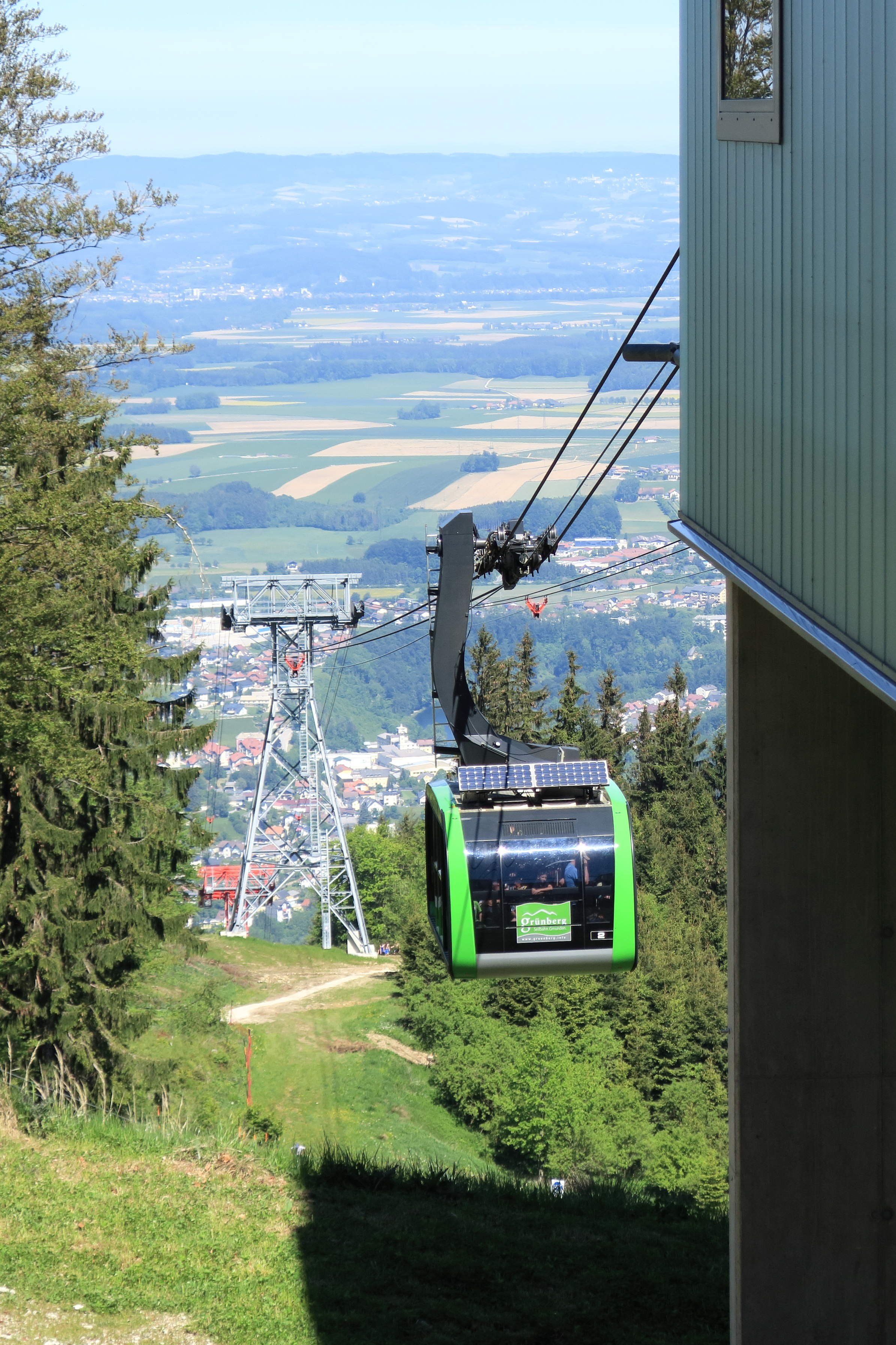 The Grünbar cable car arrives at the top station.